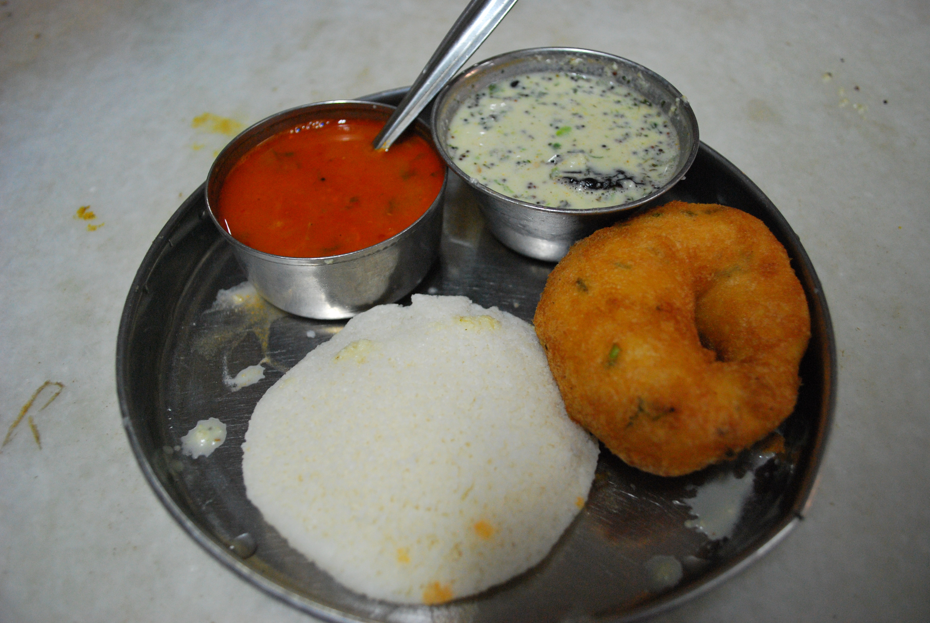 Idly, Vada & Sambar! A typical South Indian breakfast!